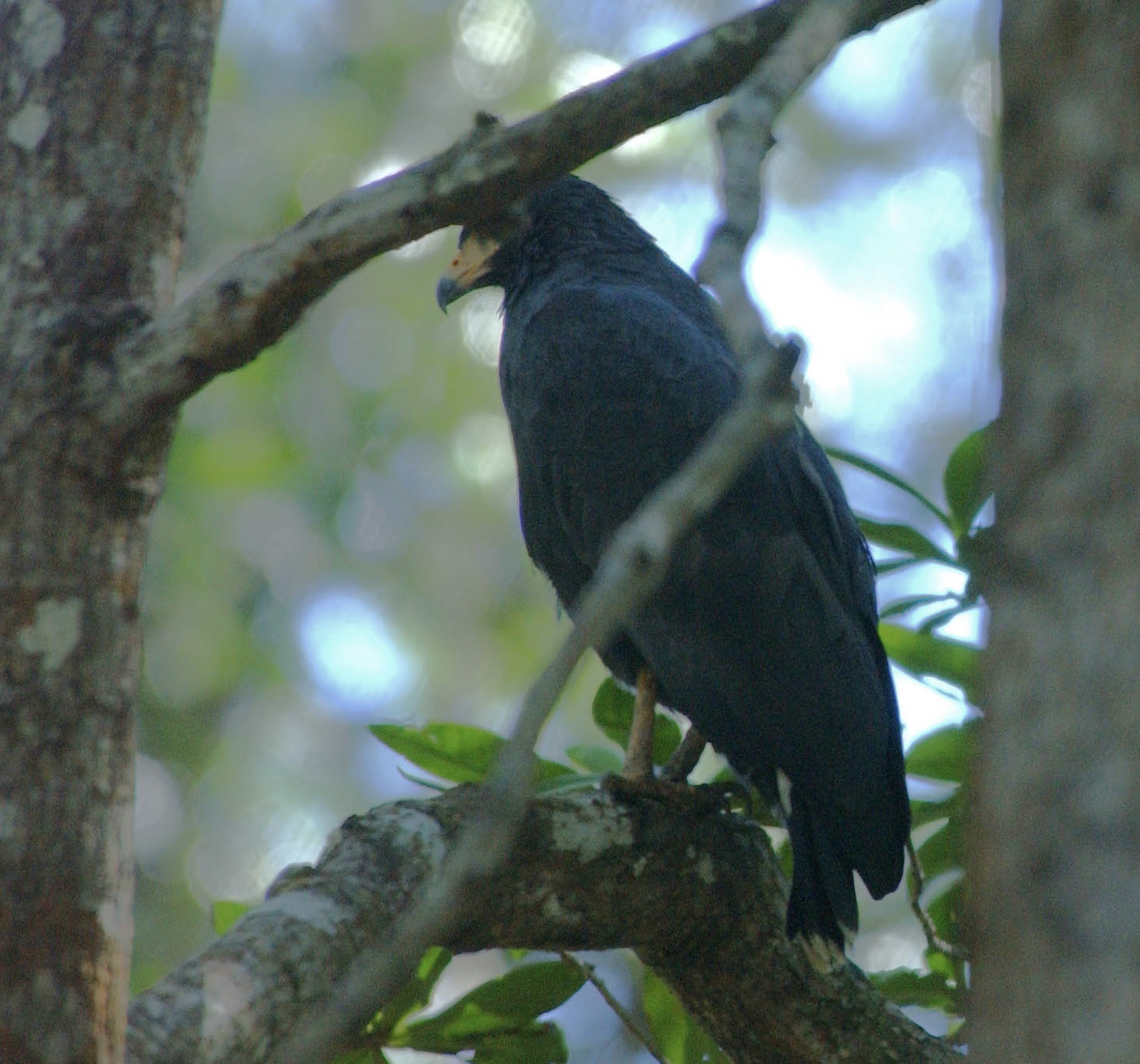 This picture was taken on an excursion into the mangrove swamps of the pacific coast of costa rica. See Mangrove Black Hawk, Buteogallus anthracinus subtilis. This is possibly the Common Black Hawk "The Mangrove Black Hawk is a resident breeding bird in the Neotropics from eastern Panama, through western Colombia and Ecuador, to far north-western Peru. Previously, it was incorrectly believed to occur as far north as Mexico, but all individuals from western Panama and northwards are nominate Common Black Hawk" if the English article is to be believed.